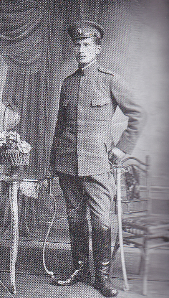 Petar Shandanov as officer